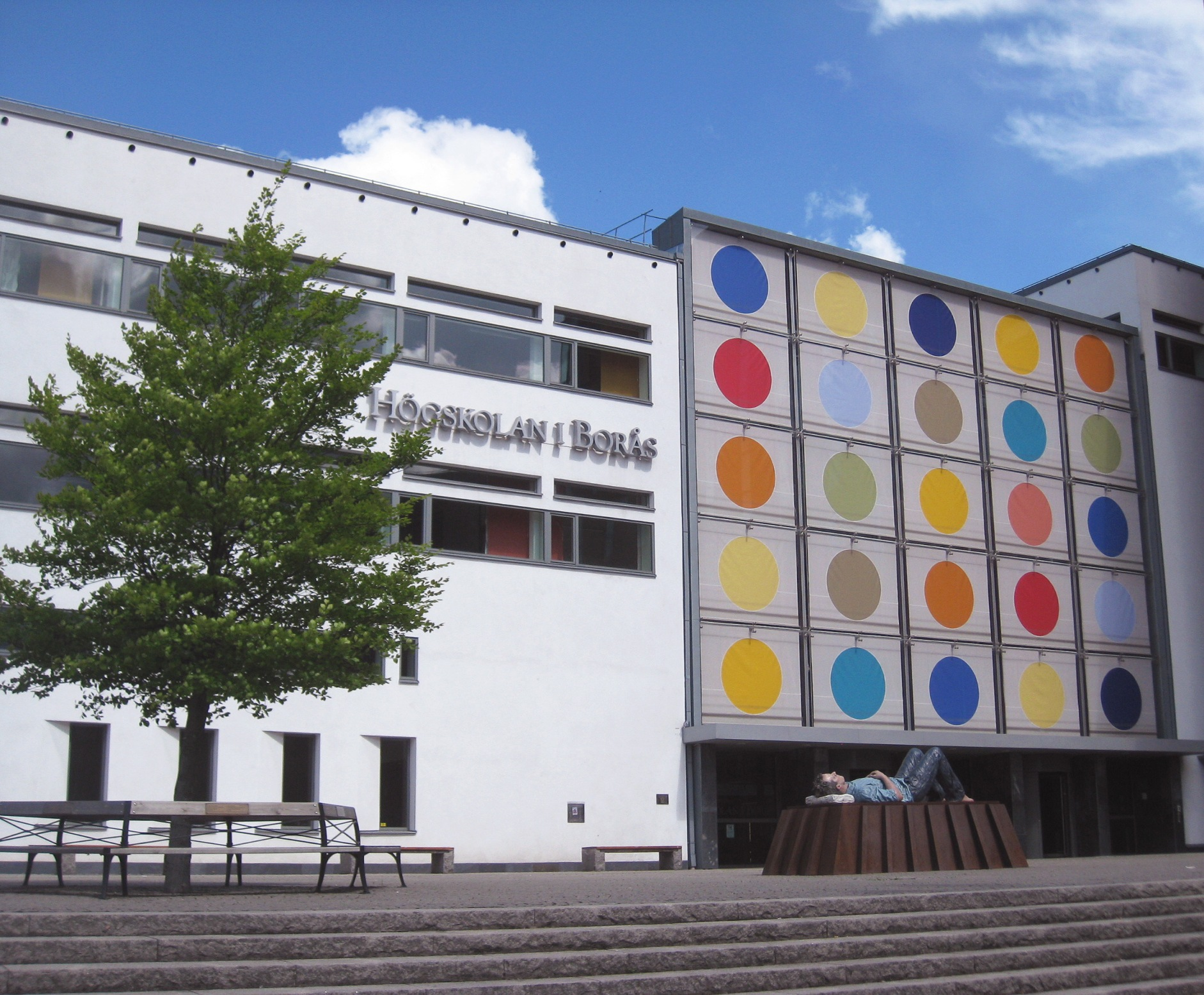 The Library and Learning Resources at University of Borås. The statue "Katafalk" is made by Sean Henry and Eva Stephensson-Möller is the artist behind the colourful sun-screening dots in the entrance.